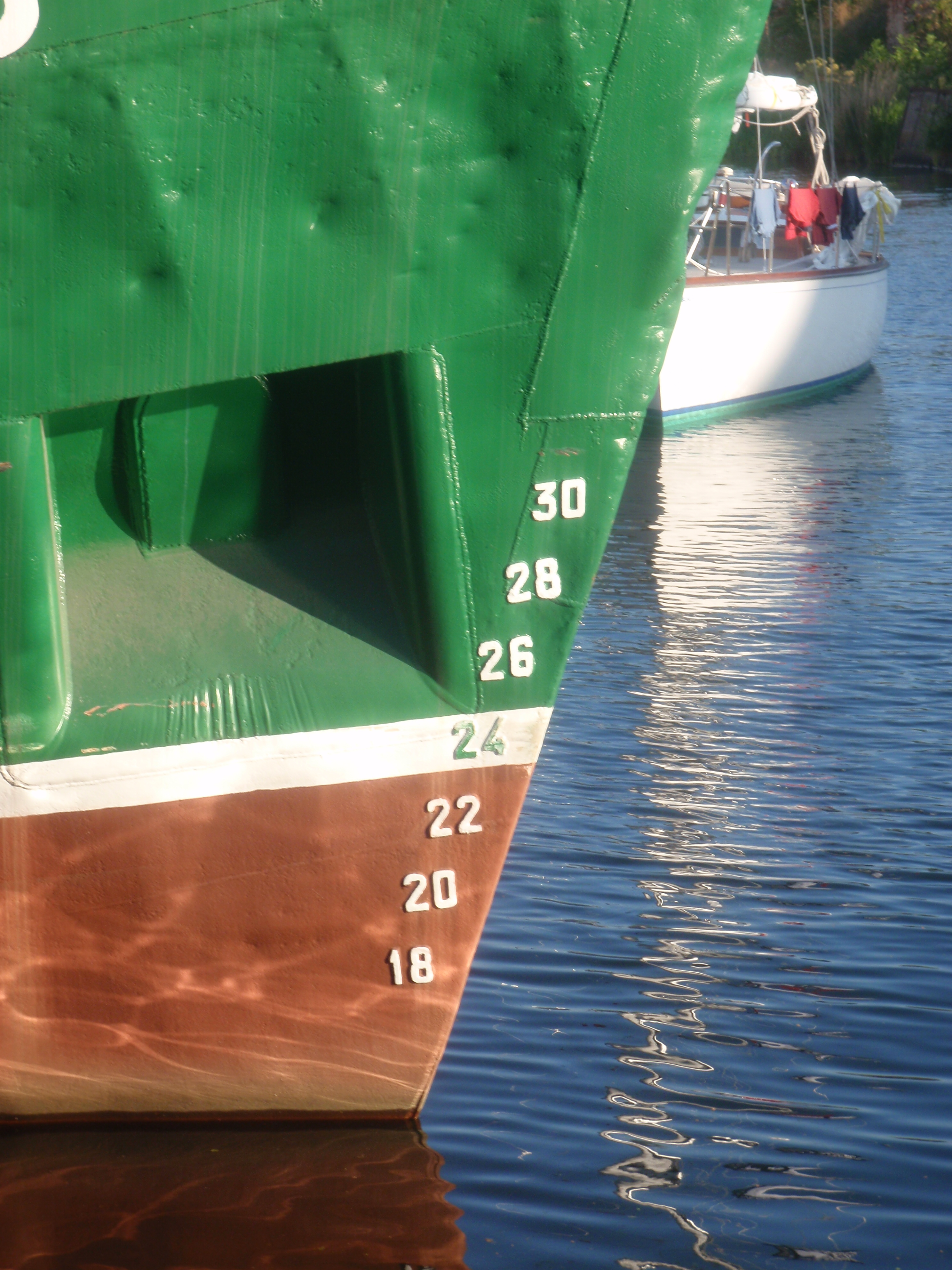 draft mark, bow of former fishing vessel GDY-18 from Gdynia, Central Marine Museum in Gdańsk, POLAND